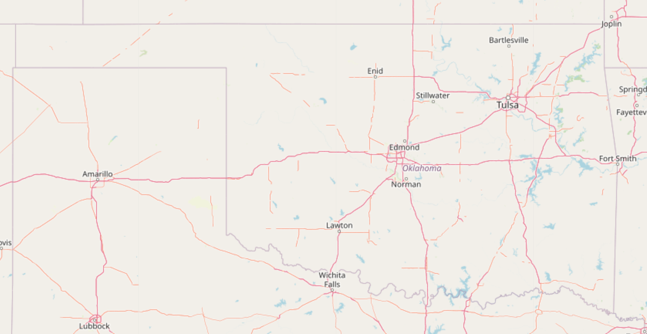 Small-scale map of Oklahoma generated by OpenStreetMap